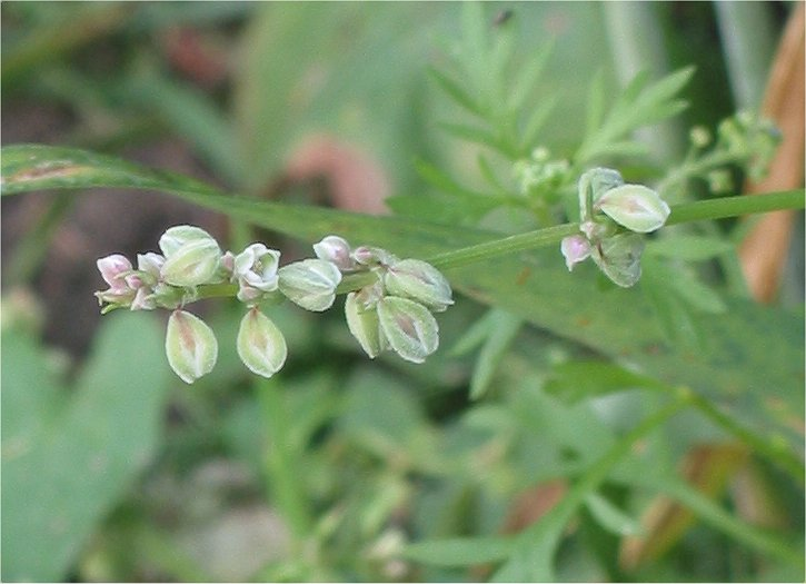 Fallopia convolvulus inflorescense